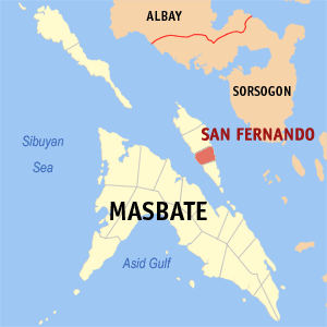 Map of Masbate showing the location of San Fernando